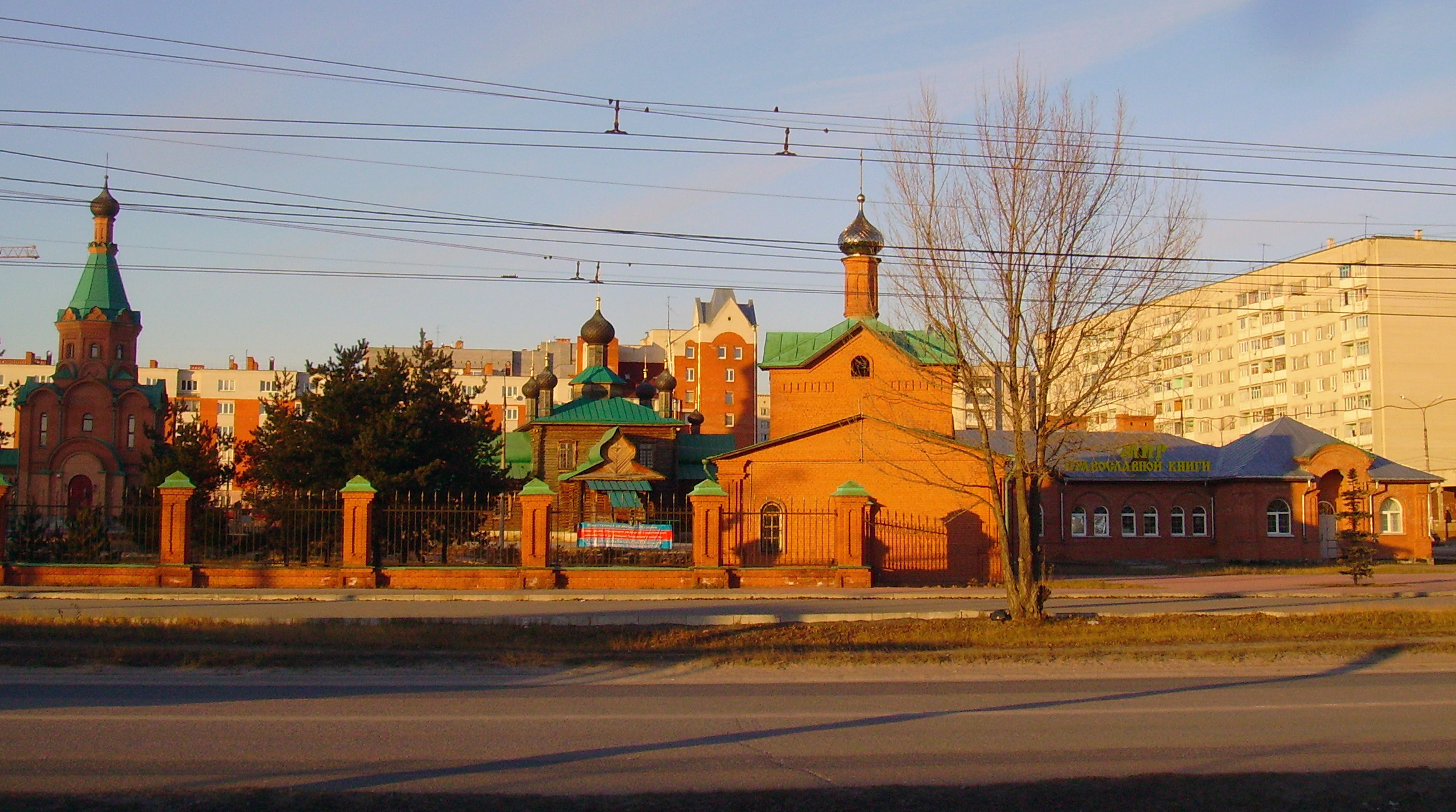 Resurrection of Jesus Temples Complex